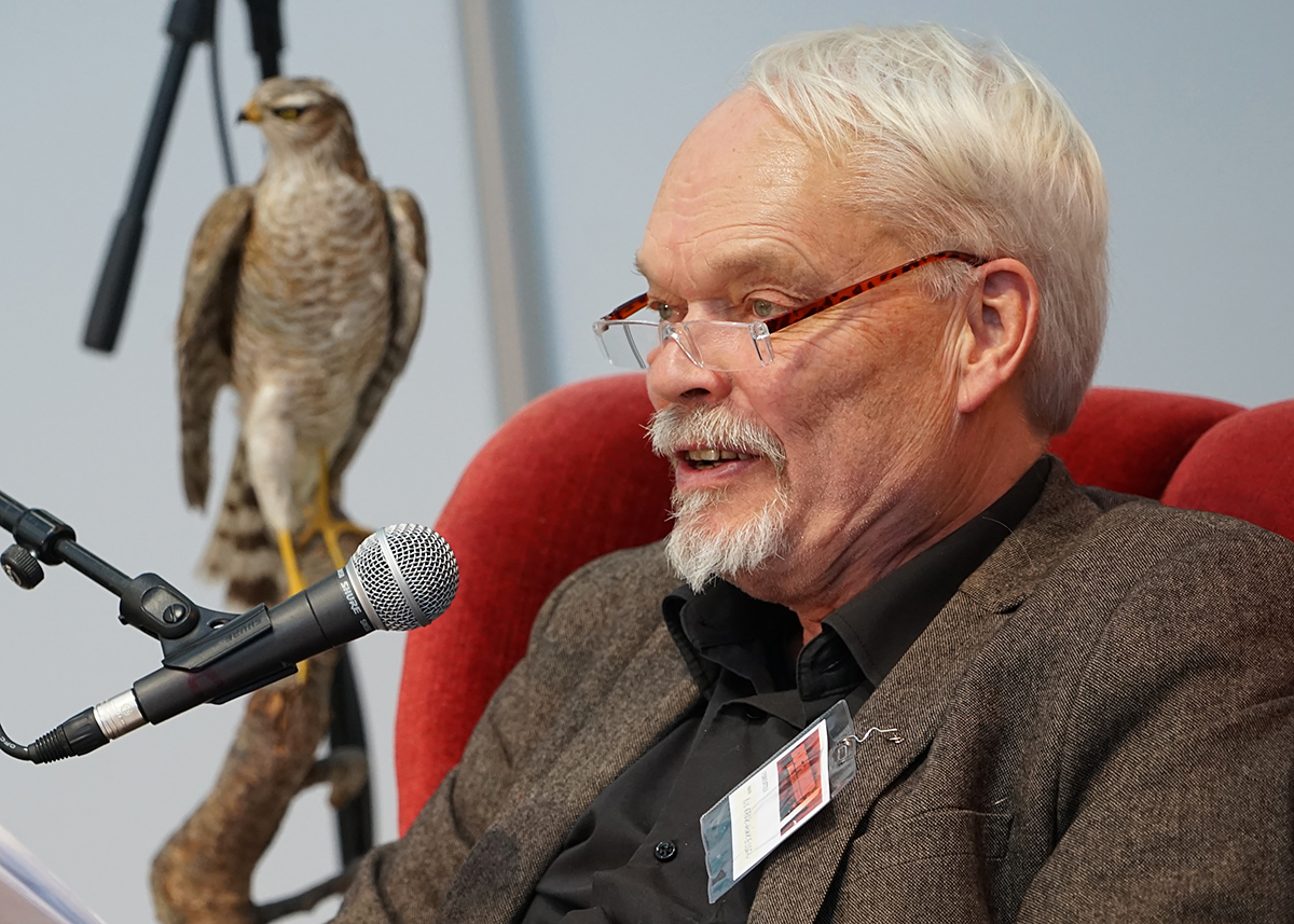 Nis Bank-Mikkelsen - Danish actor at the Copenhagen Book Fair "BogForum 2015", Copenhagen, Denmark